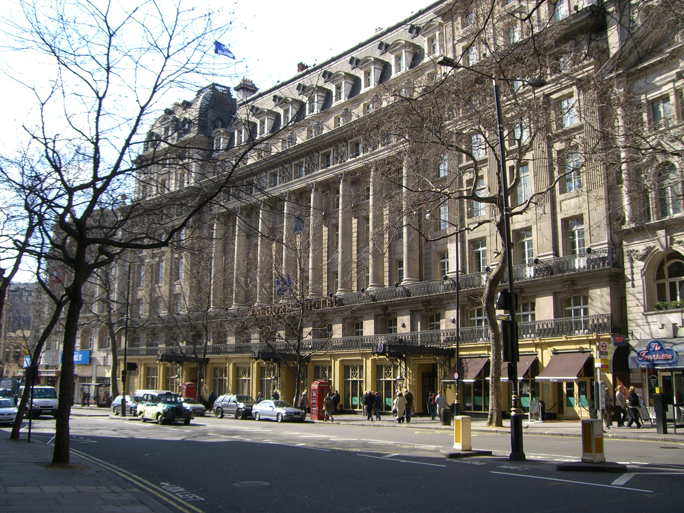 Waldorf Hilton, 22 Aldwych, London WC2B 4DD Photo taken by User:Edward on 19 March 2006 with a Casio EX-S600.